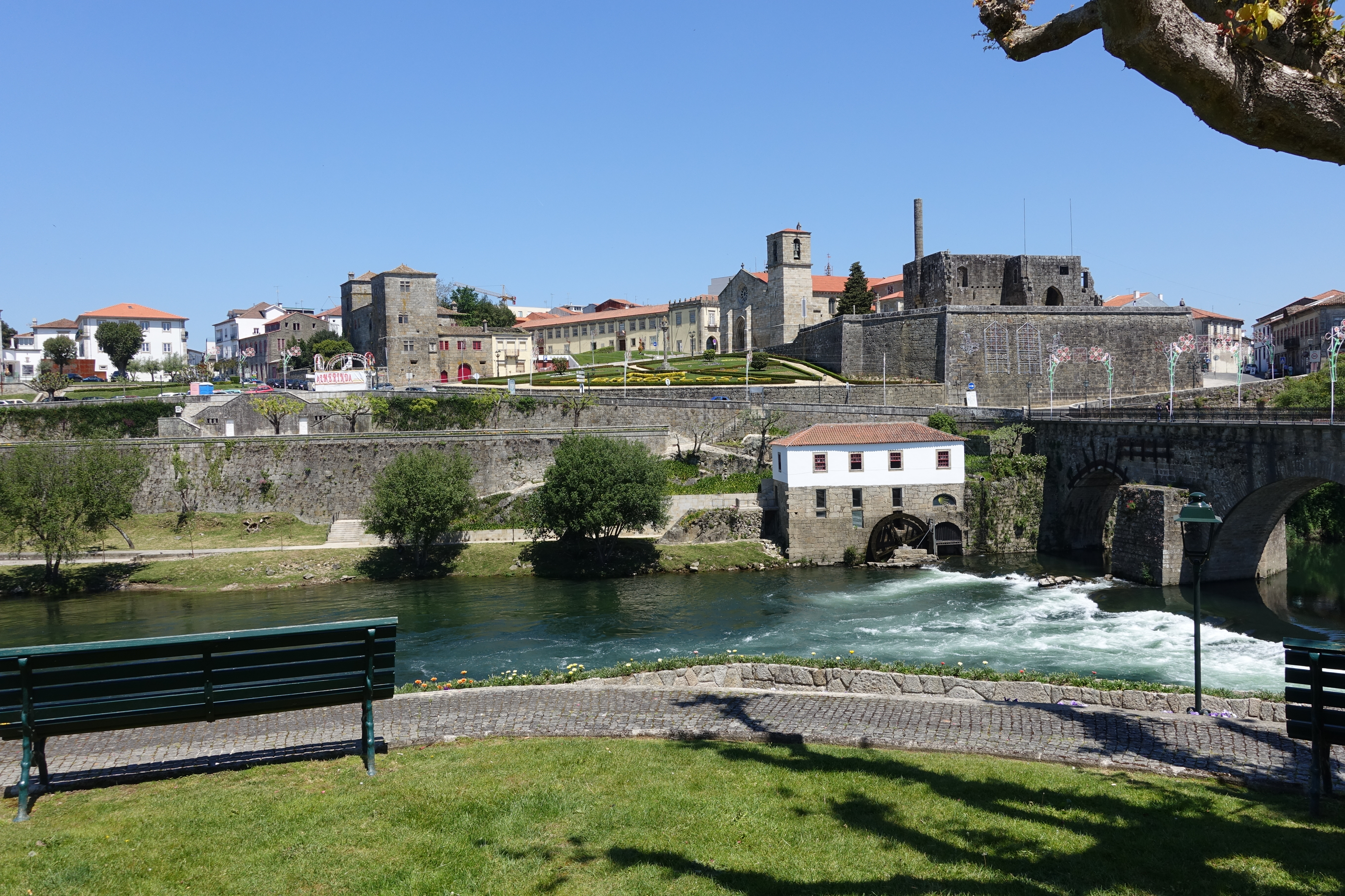 Cávado River in Barcelos, Portugal.